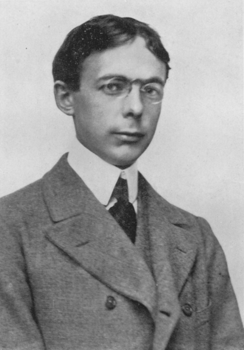 Portrait of Carl Russell Fish, American historian.